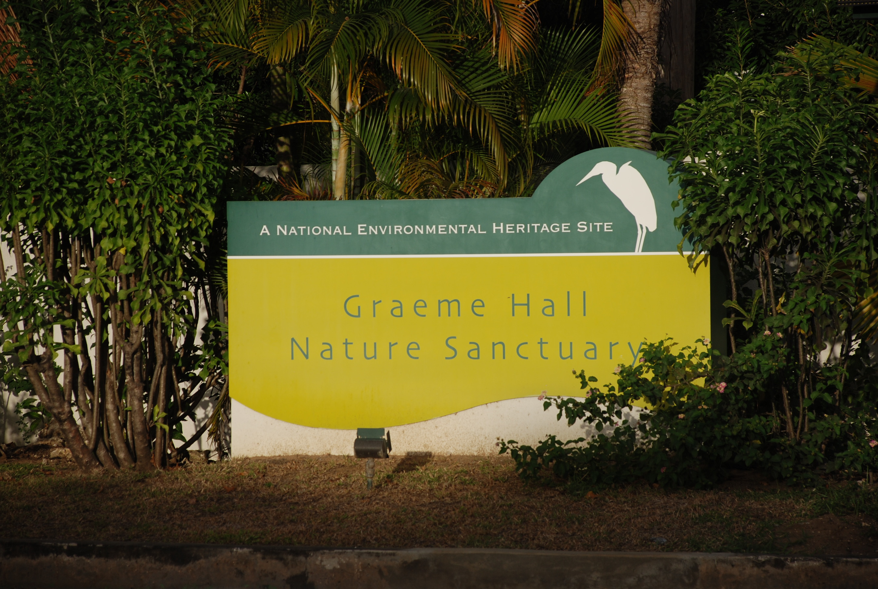 Graeme Hall Sanctuary - Entrance. This is the entrance to the Sanctury in Christchurch, Barbados. It has been closed to the public for over 10 years.